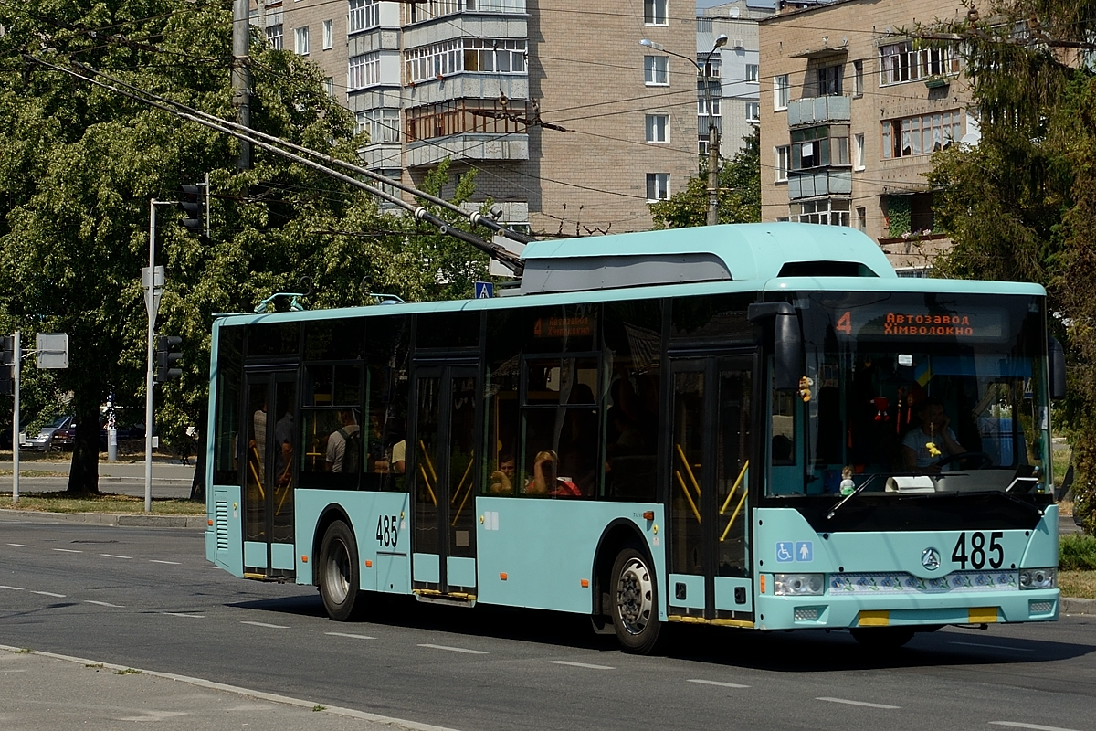 Etalon T12110 485 in Chernihiv